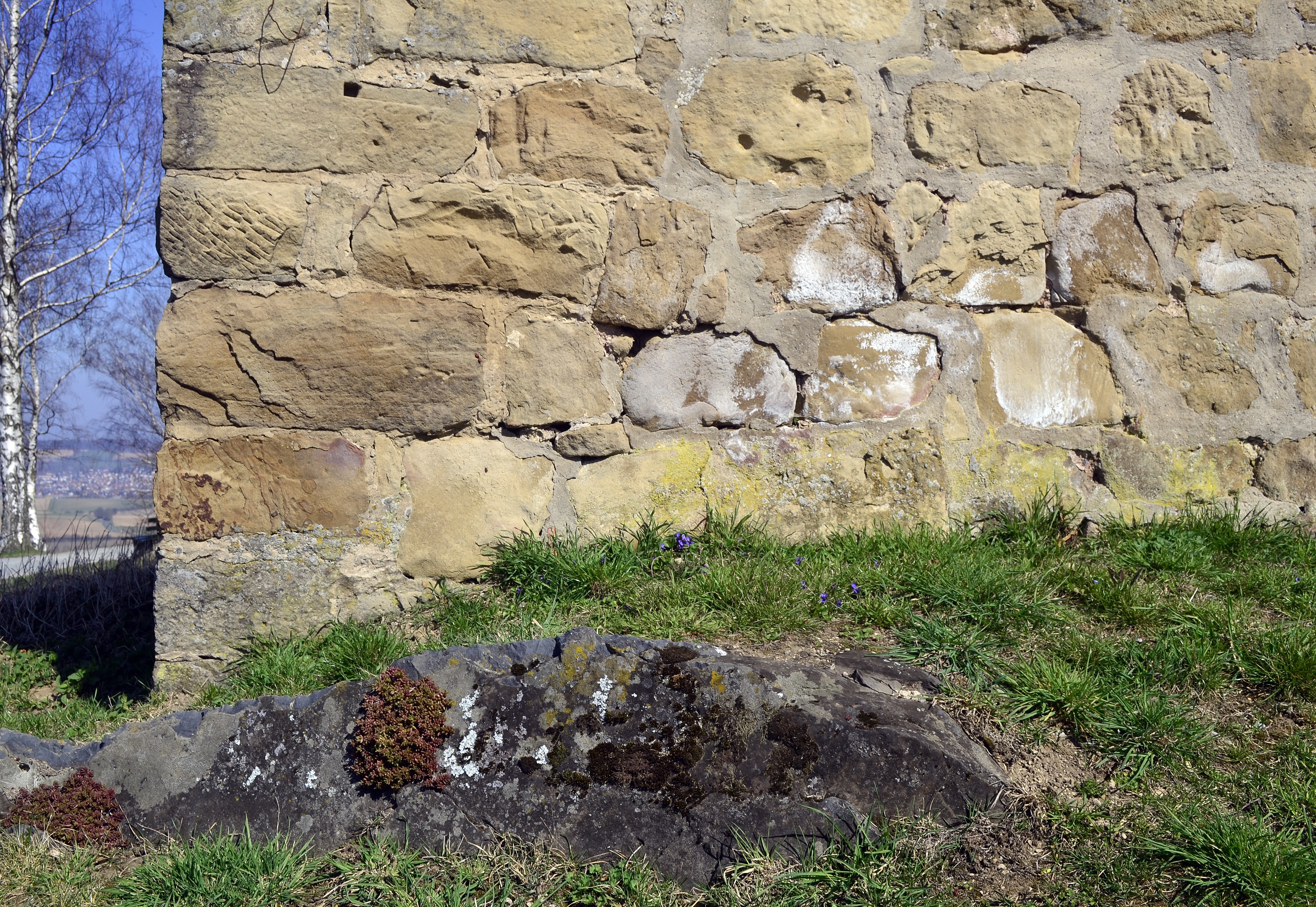 Steinsberg Castle